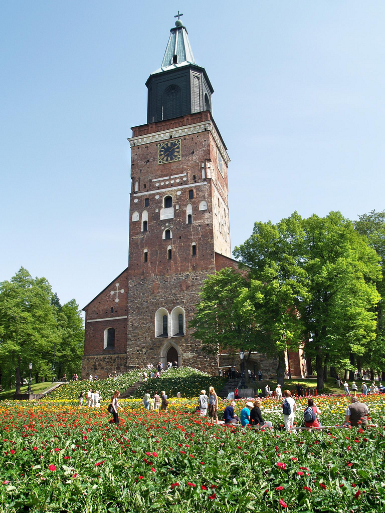 Gerberas next to Turku Cathedral in Turku, Finland